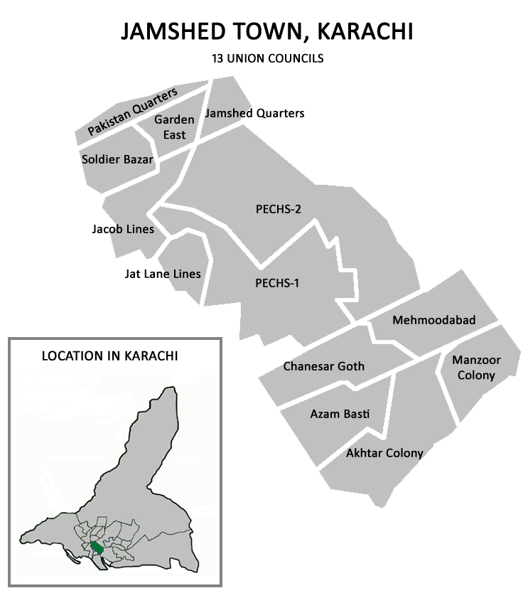 Union councils of Jamshed Town, Karachi.